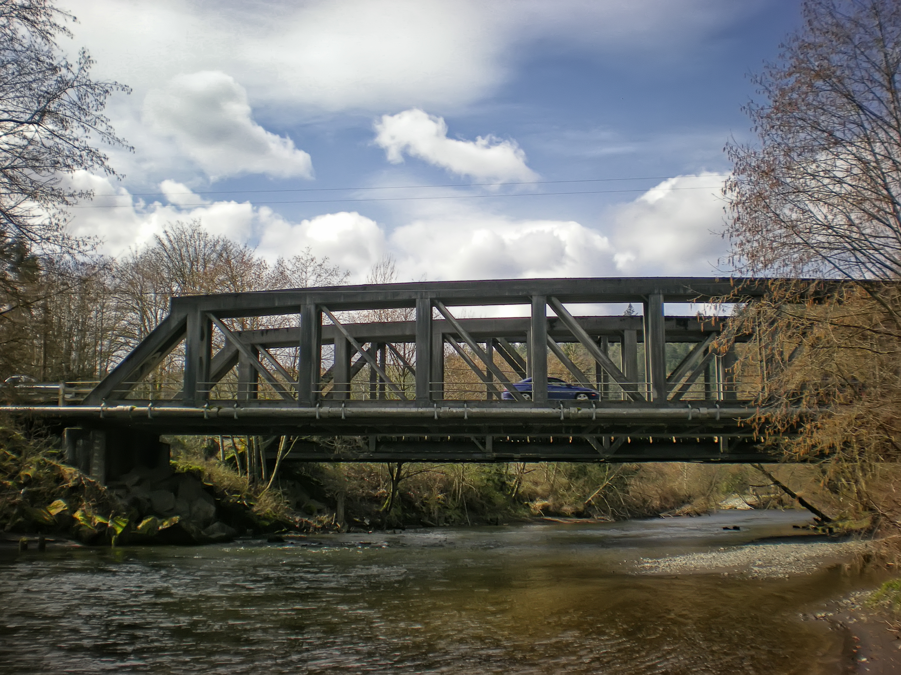 The McMillin Bridge over the Puyallup River in McMillin, Washington, USA.